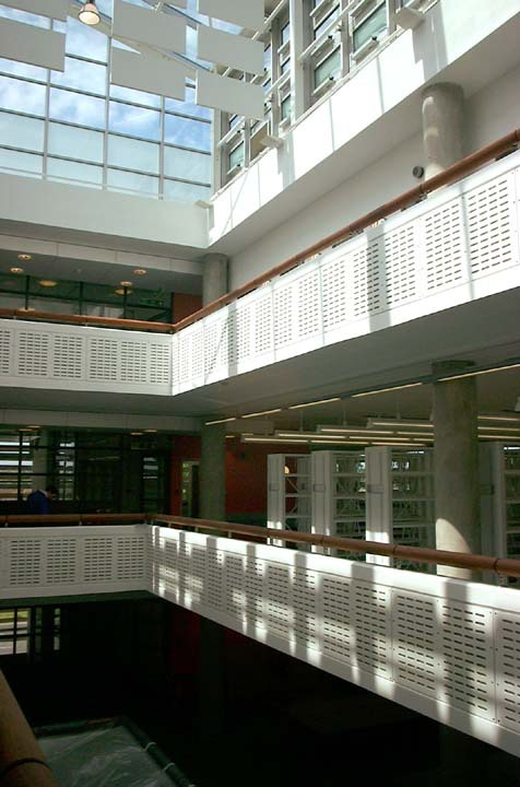 Interior of new library opened in 2001 and designed by van Heyningen and Haward Architects as a gateway building to the University campus